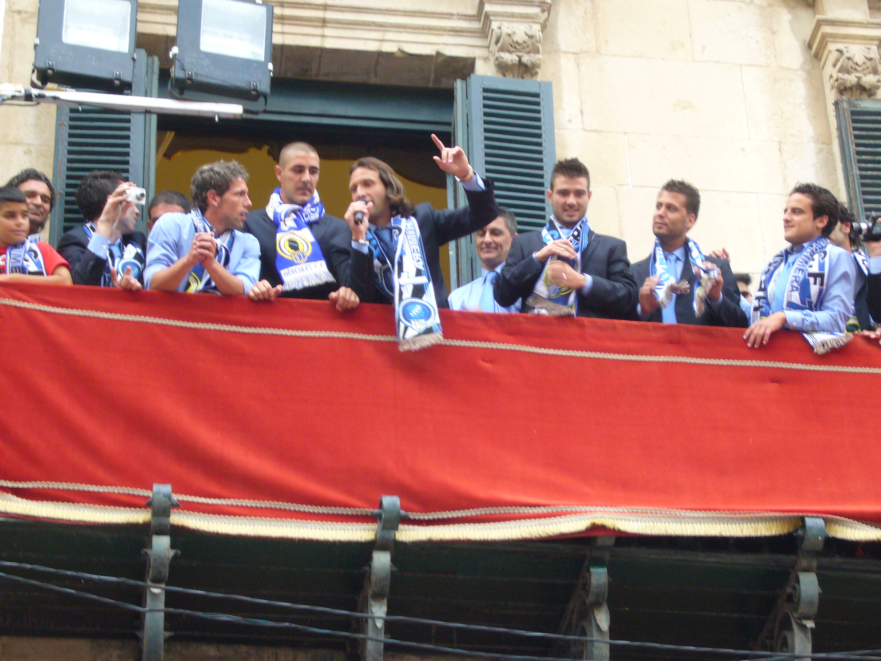 Rufete (with microphone in hand) on the balcony of the city of Alicante during the celebration of the rise of Hercules C. F. to First division in 2009/10 season.